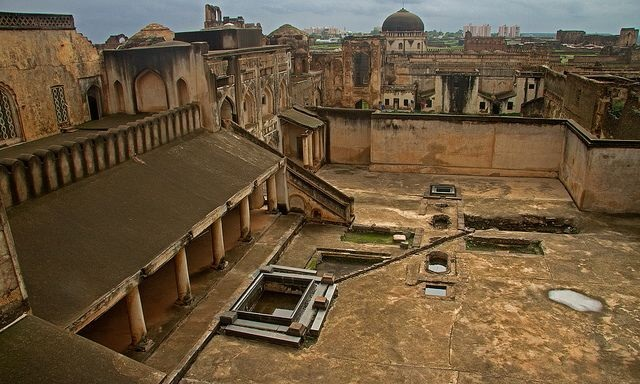 Rangeen Mahal Top View